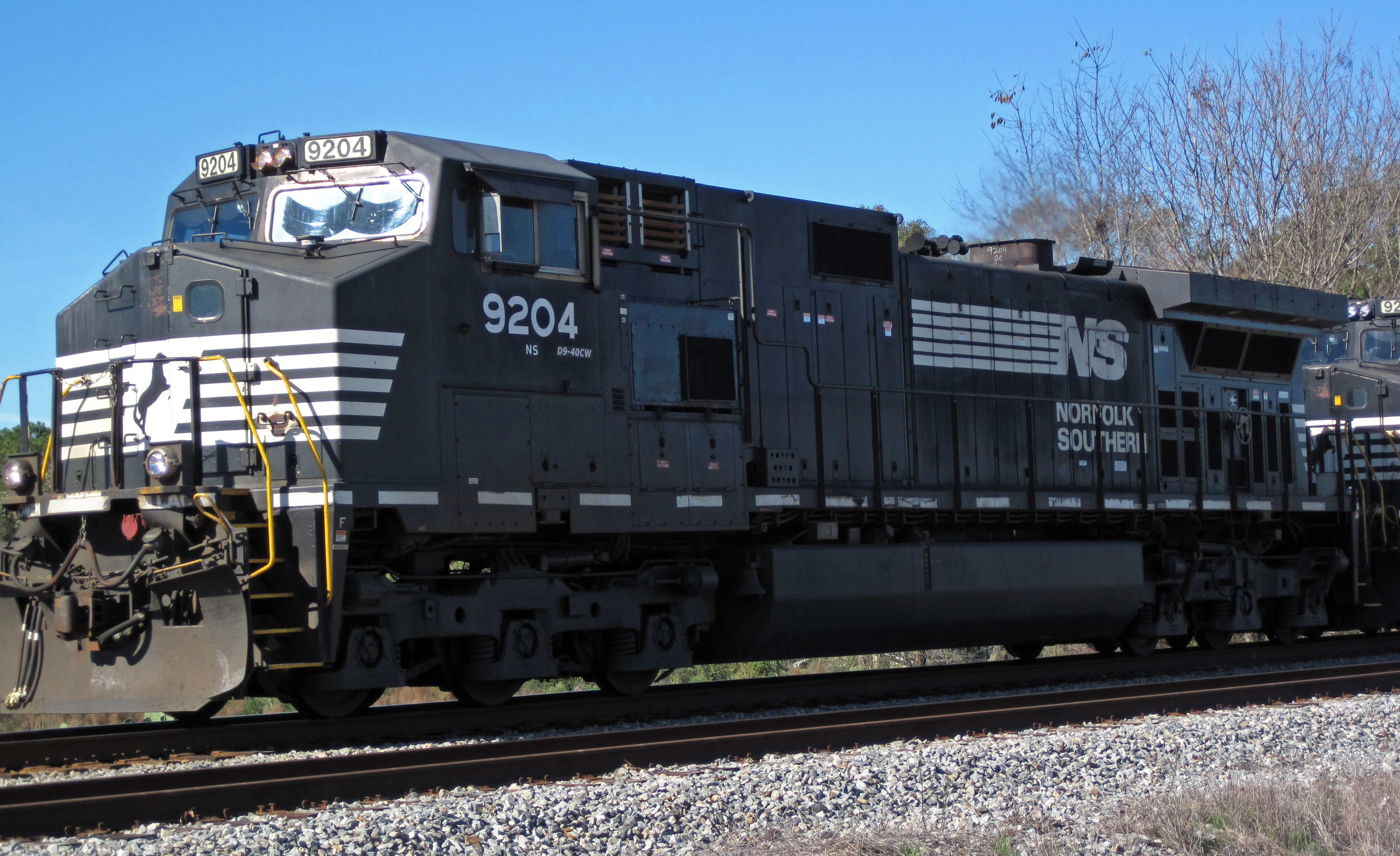 This is the lead unit of a south-bound Norfolk Southern Railway maintenance-of-way (MOW) train near Inaha, Georgia, USA, seen on 19 December 2013. The engine is a General Electric CW40-9 - it was built in April 1998. This particular MOW train was carrying welded rails on roller cars. Locality: north of Inaha, southern Turner County, southern Georgia, USA